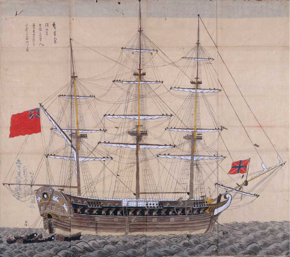 A contemporary Japanese drawing of the HMS Phaeton; in custody of the Nagasaki Museum of History and Culture